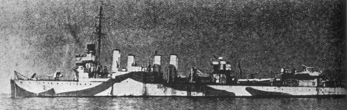 Soviet destroyer Zharkiy.